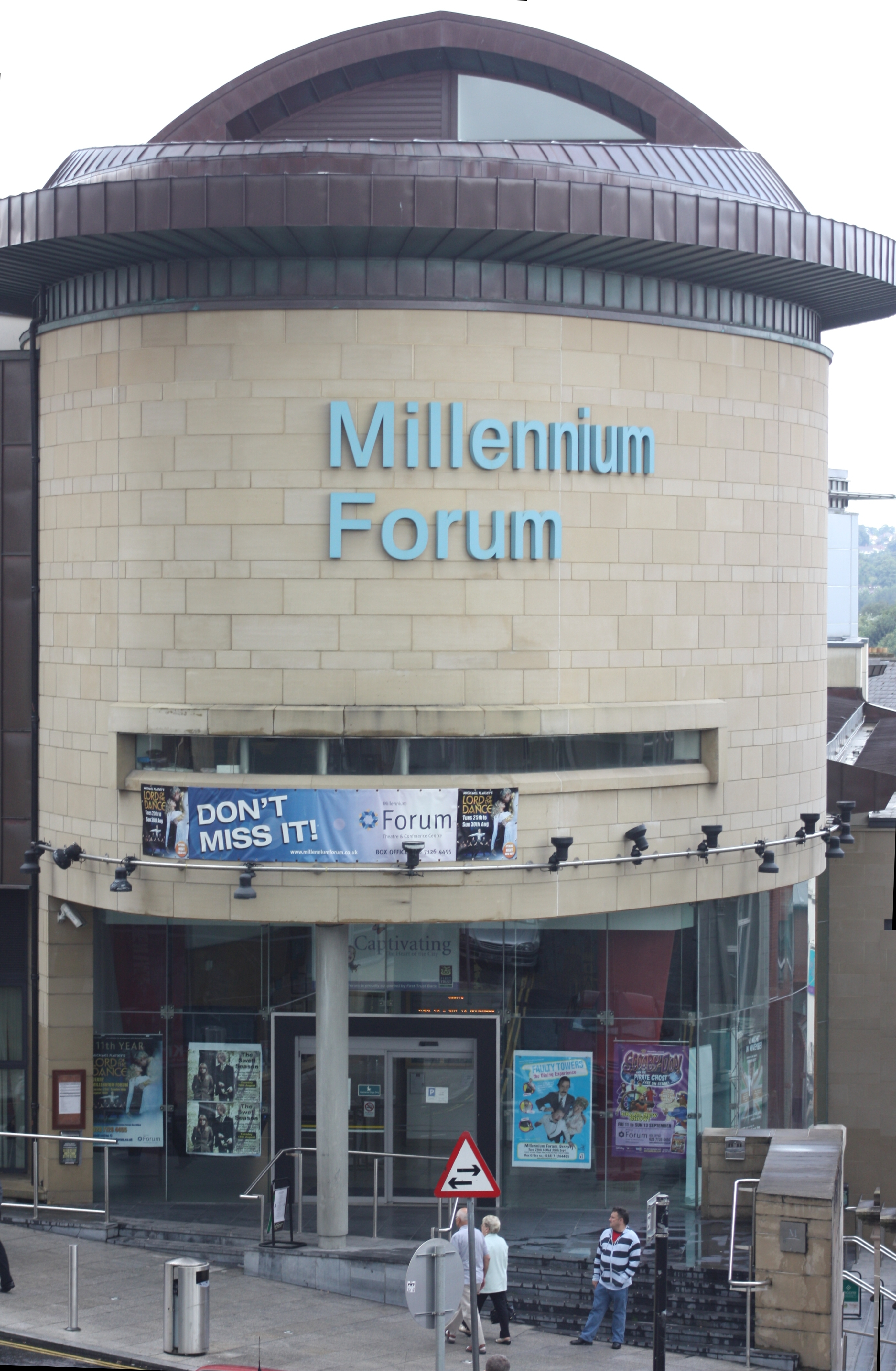 Millennium Forum, Newmarket Street, Derry, County Londonderry, Northern Ireland, August 2009